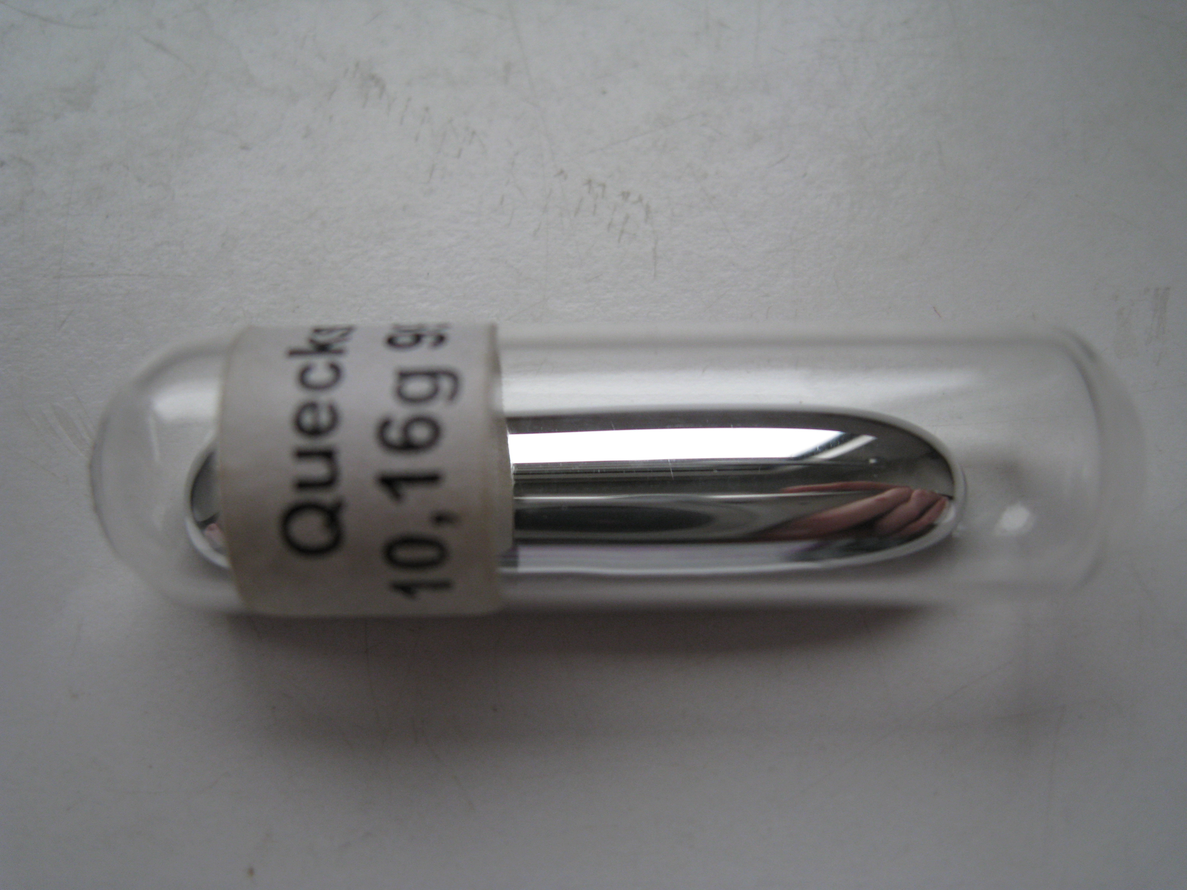 Mercury sample from the Dennis s.k collection